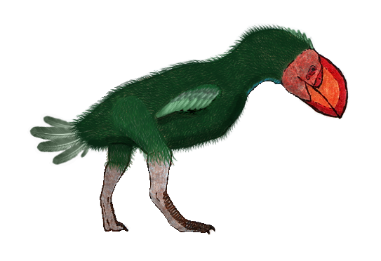 The Gastornithiform Zhongyuanus from the Early-Eocene of China.